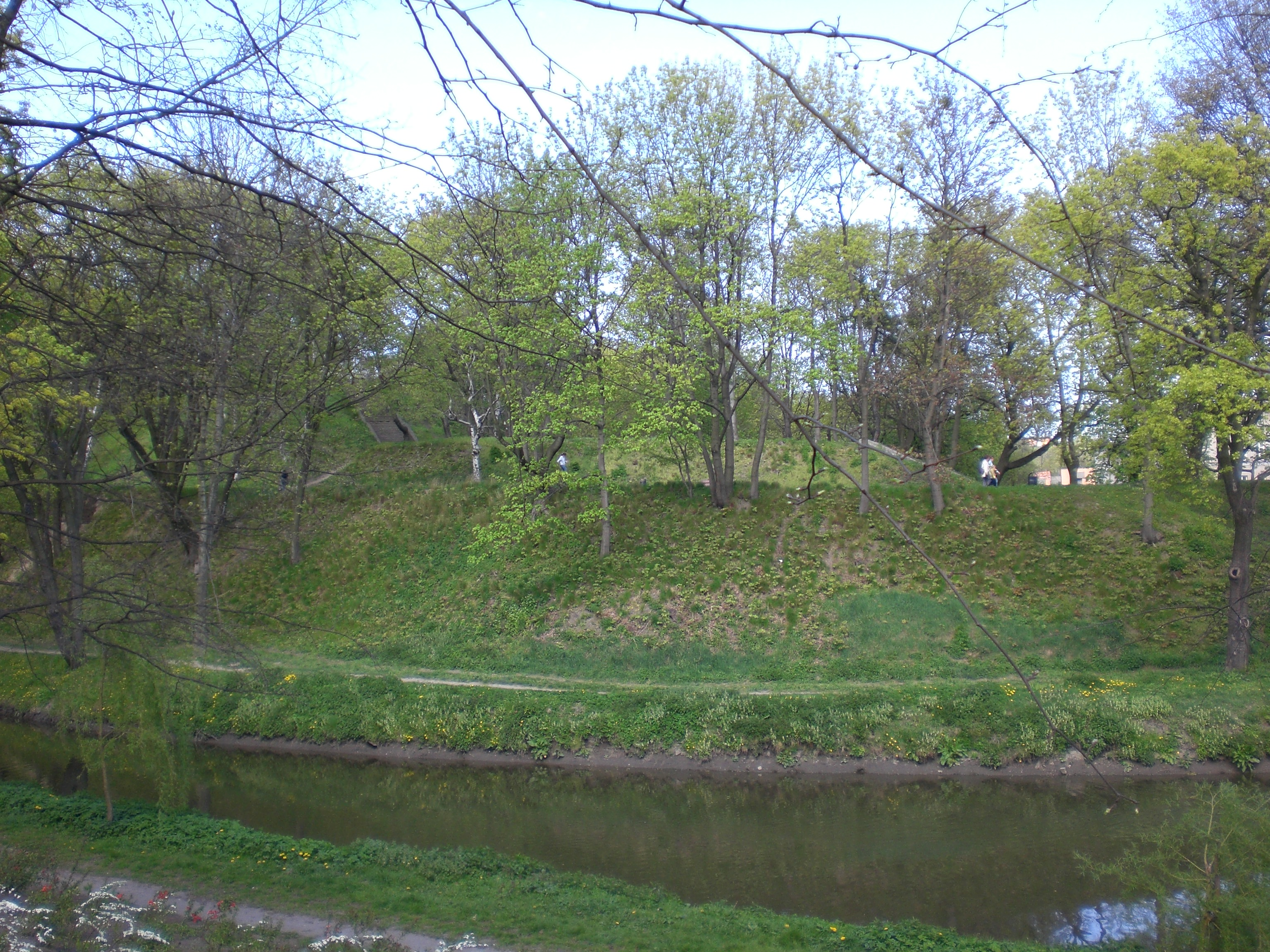 Góra Gradowa in Gdańsk (a view from Nowe Ogrody Street).